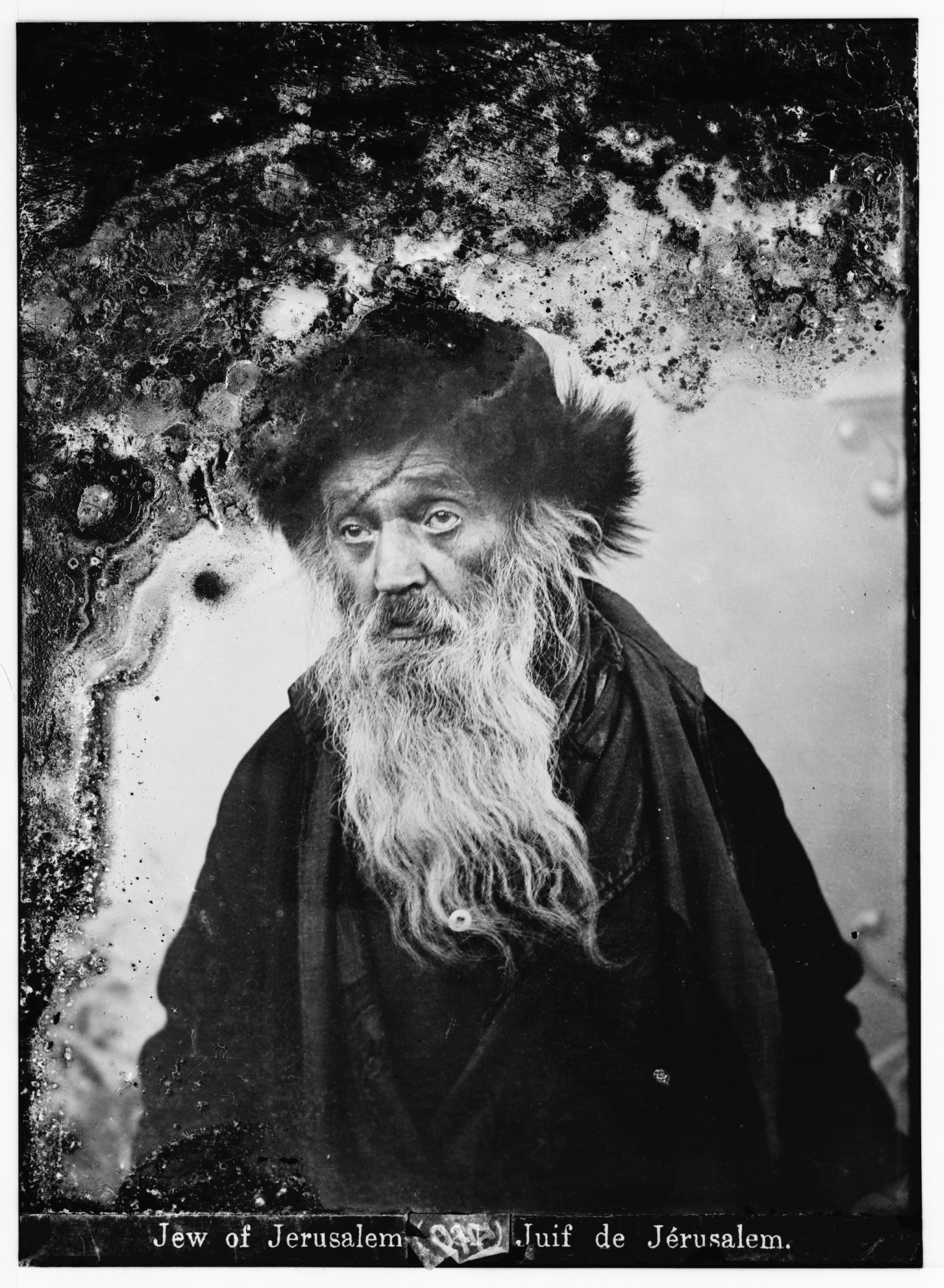 Costumes, characters, etc. Jewish rabbi.